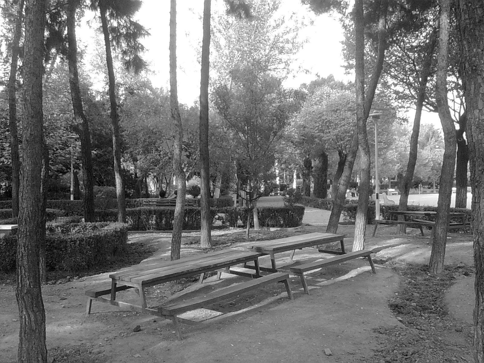 Persian Fantasy Academy meeting bench at Laleh Park in Tehran-Iran